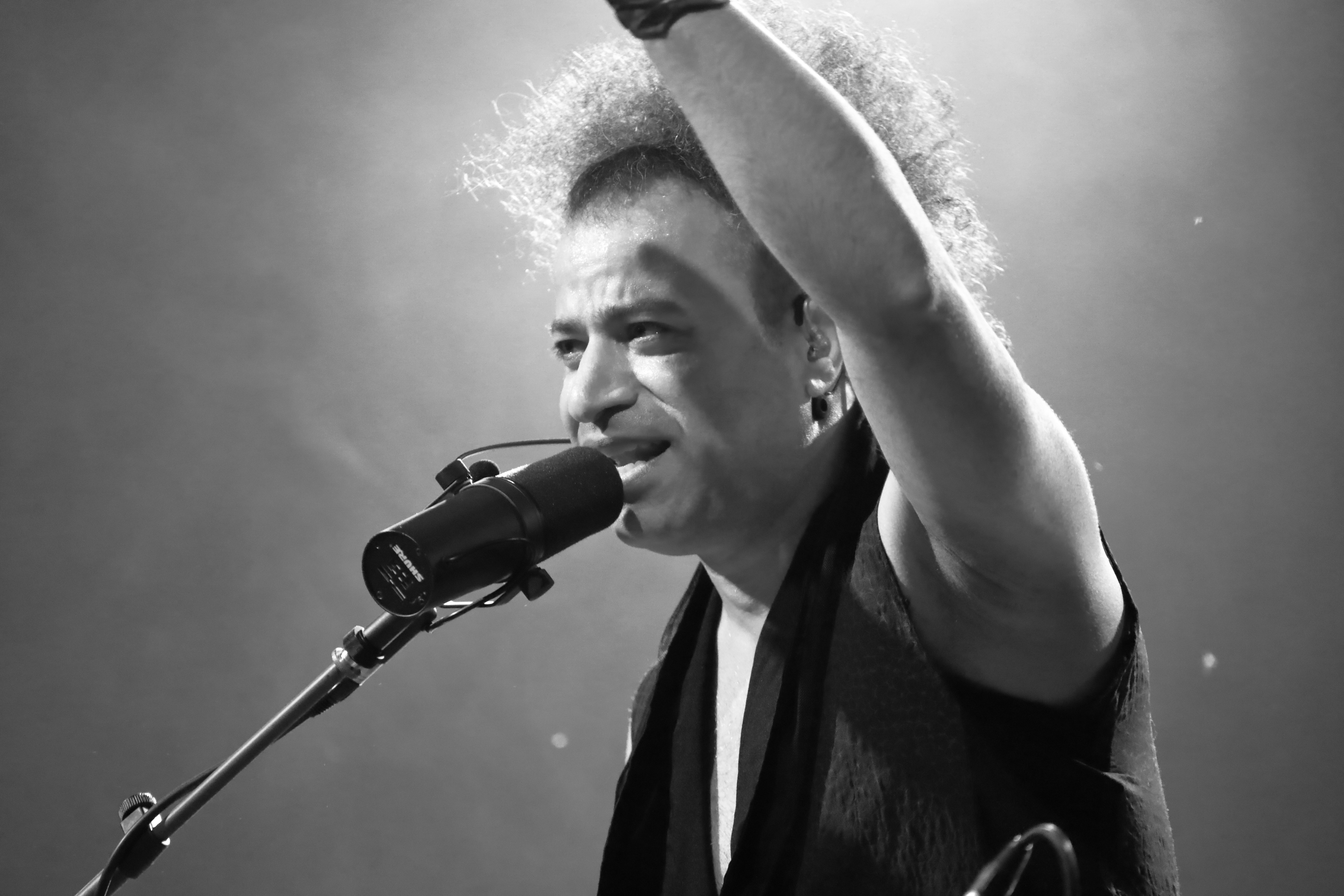 Iranian percussion player and vocalist Habib Meftah with DJ Nicolas Lacoumette at Rudolstadt-Festival 2019.